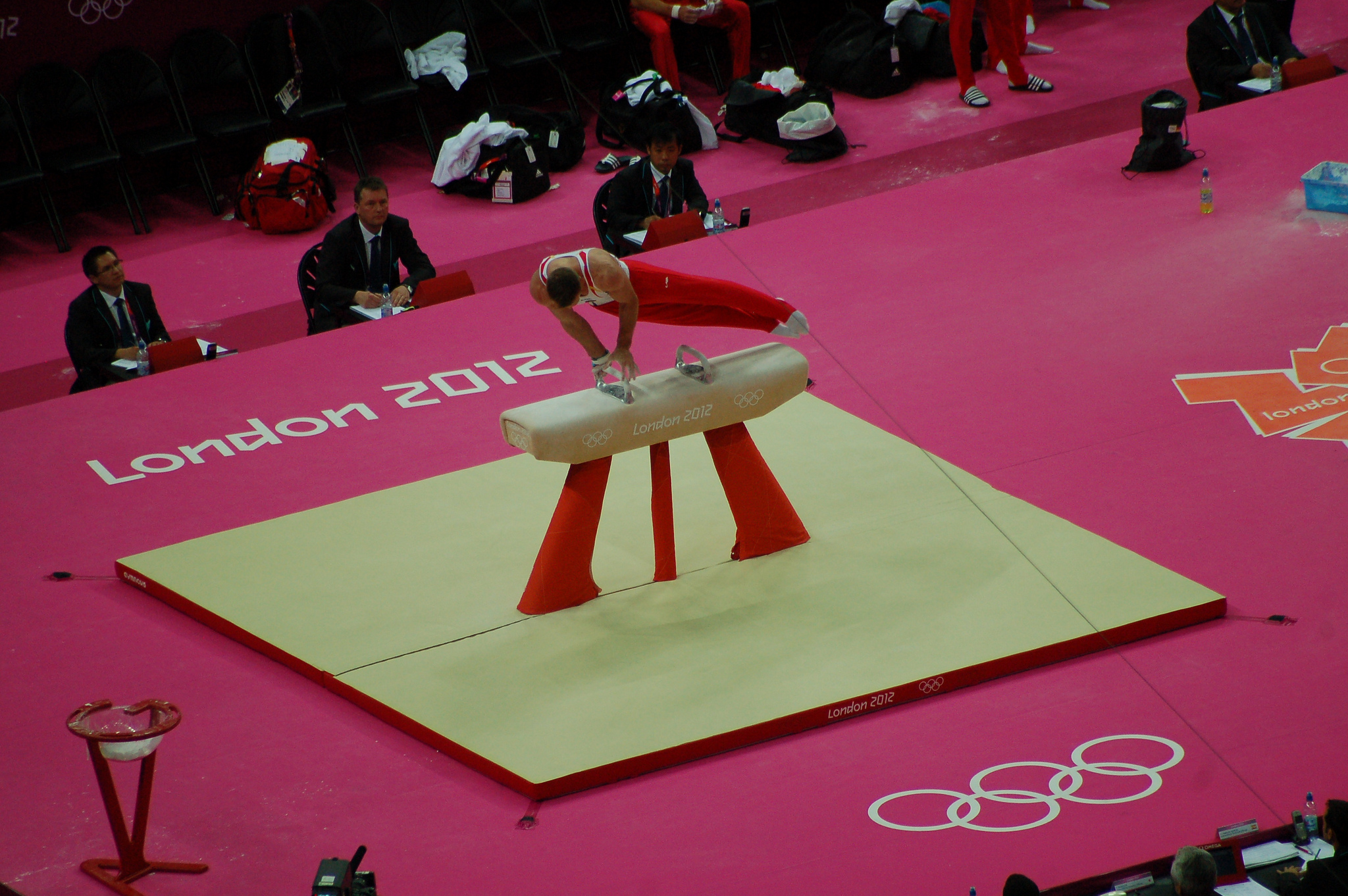 London Olympic 2012 - Artistic Gymnastics Mens' Qualifiers - o2